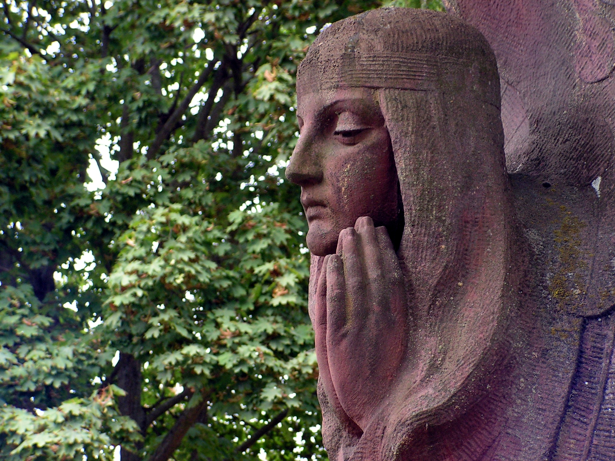 Detail of angel's statue from Sturgólewski family grave on Communal Cemetery in Włocławek.